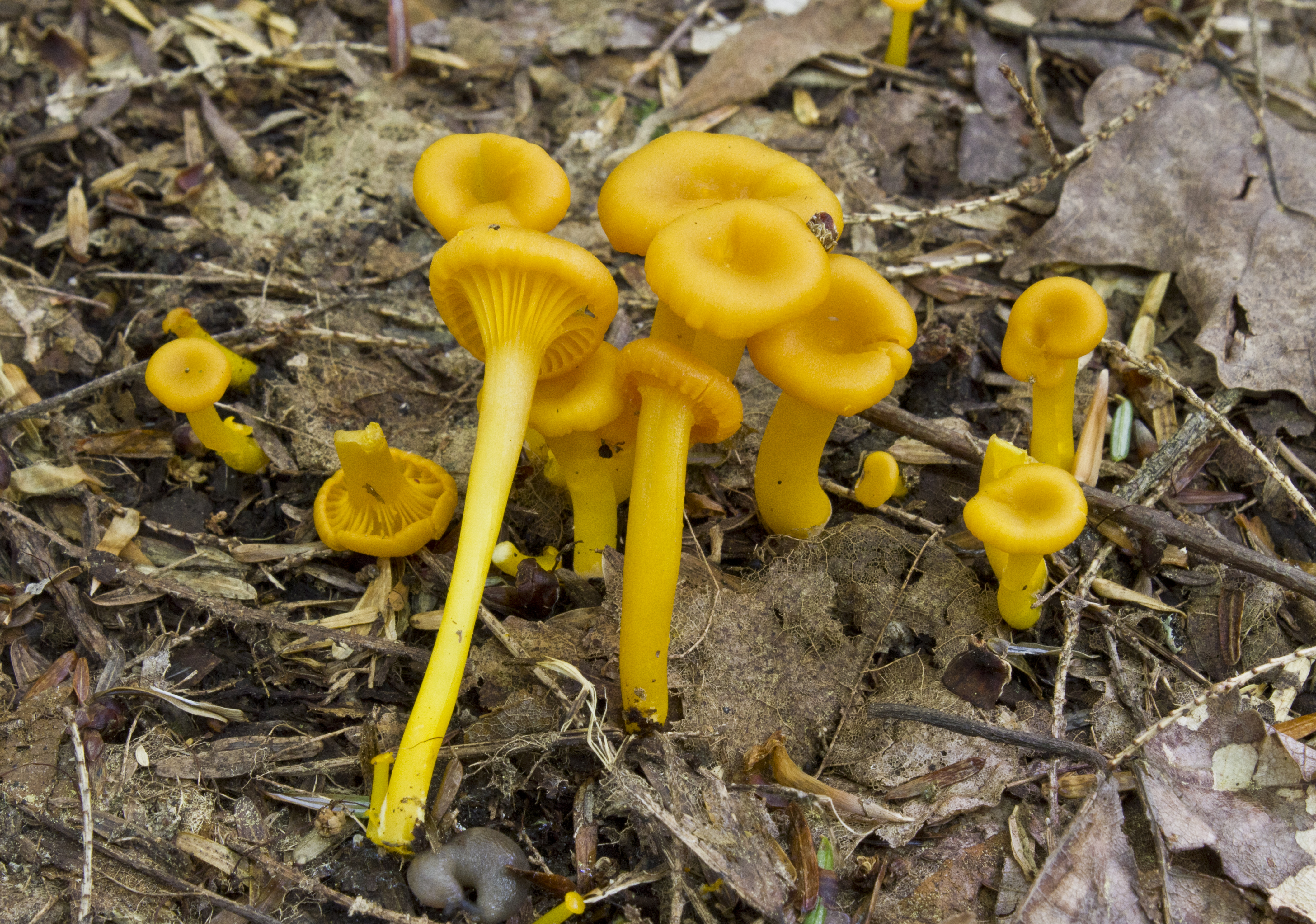 Hygrocybe nitida Location: Oxford Co., Maine, USA For more information about this, see the observation page at Mushroom Observer.